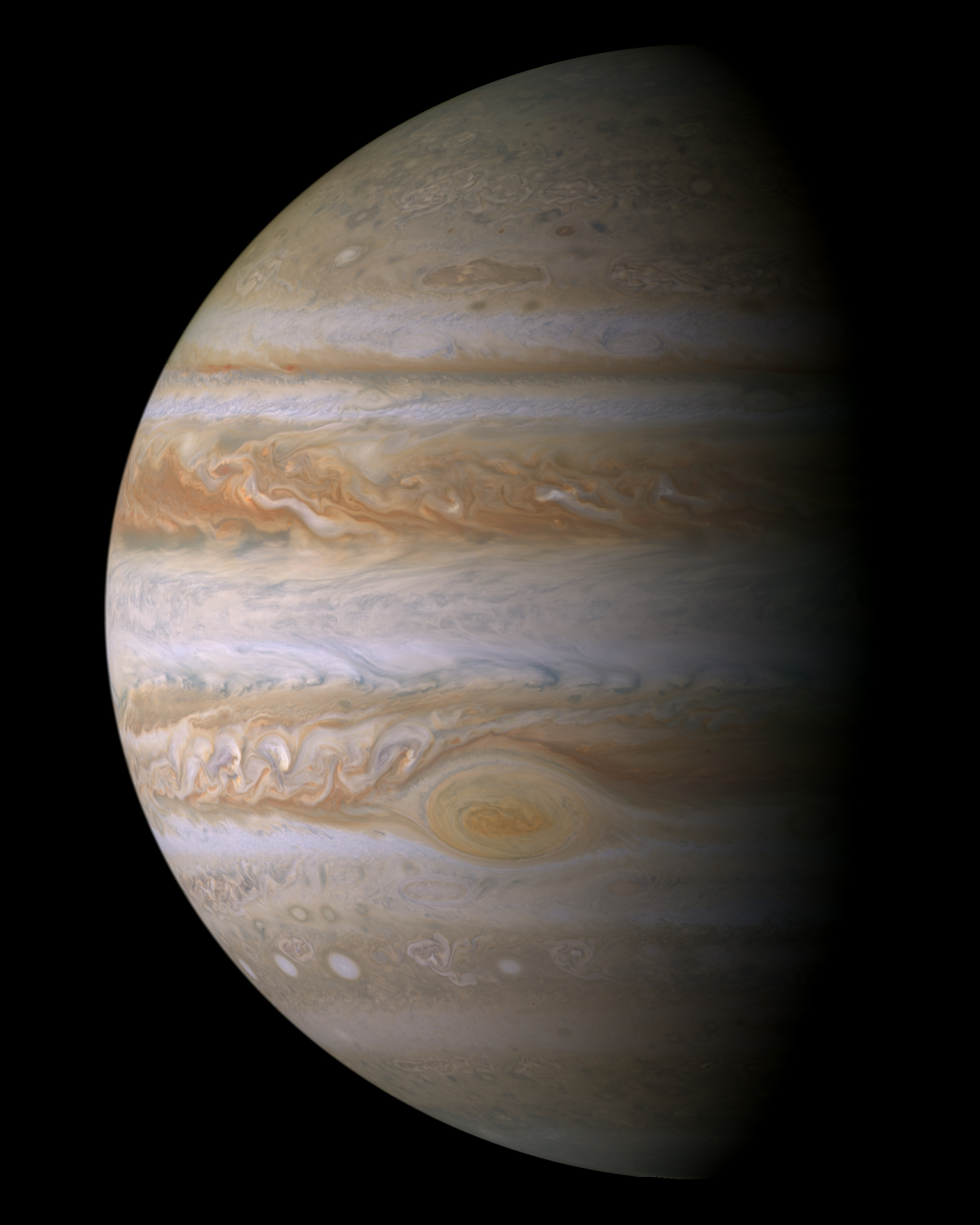 Jupiter as seen by the space probe "Cassini". This is the most detailed global color portrait of Jupiter ever assembled. It is produced from several high resolution images taken a little more than a day before Cassini's closest approach to Jupiter.